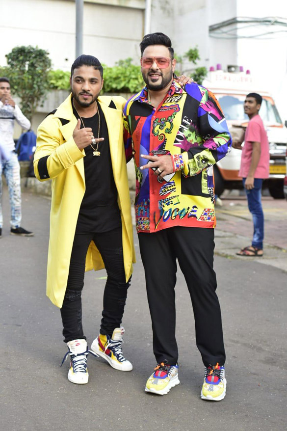 Badshah and Raftaar on the set of Dance India Dance.